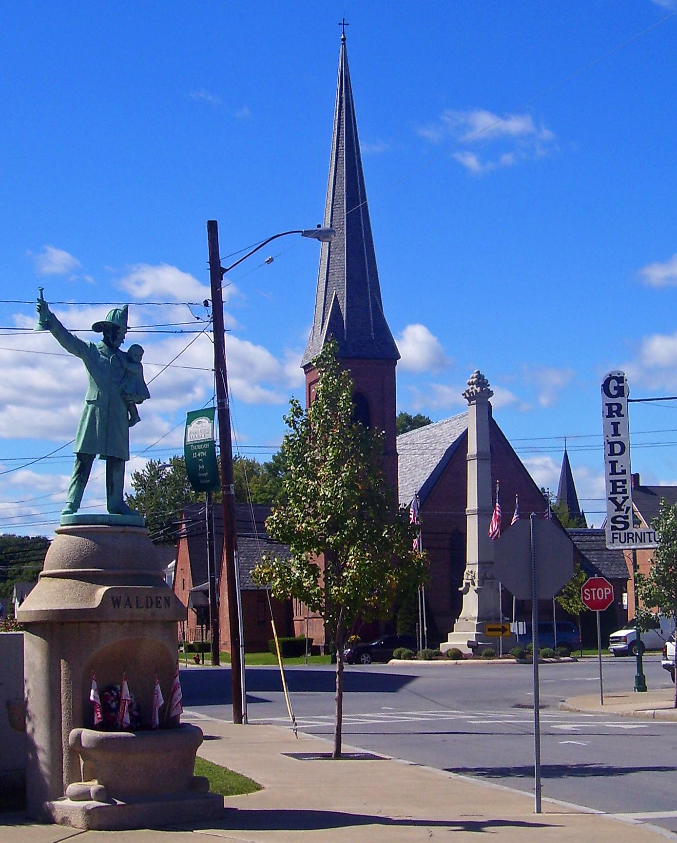 St. Andrew's Episcopal Church and monuments in downtown Walden, NY, USA